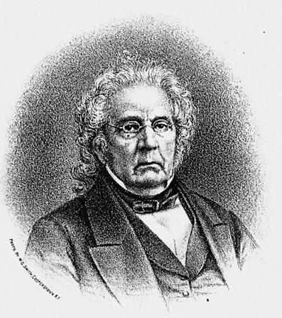 John Holmes Prentiss, Congressman from New York